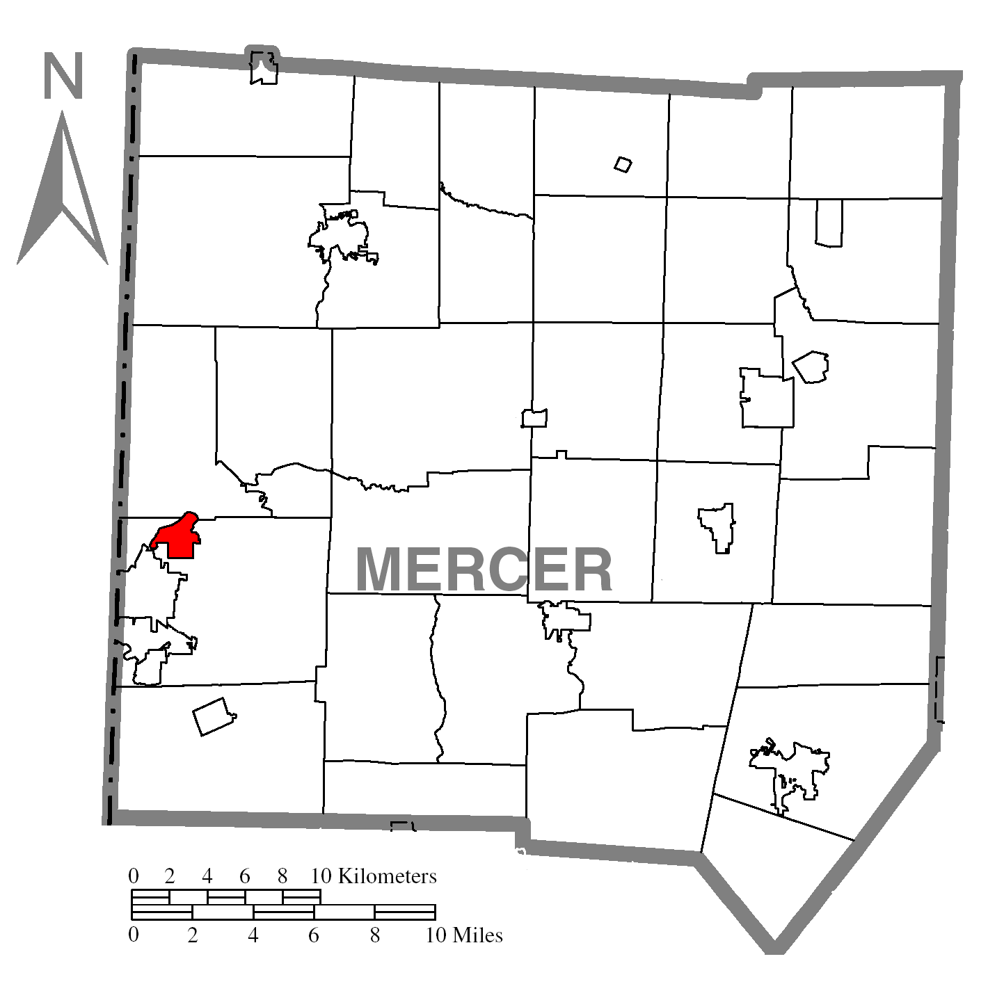 Map of Mercer County higlighting Sharpsville.